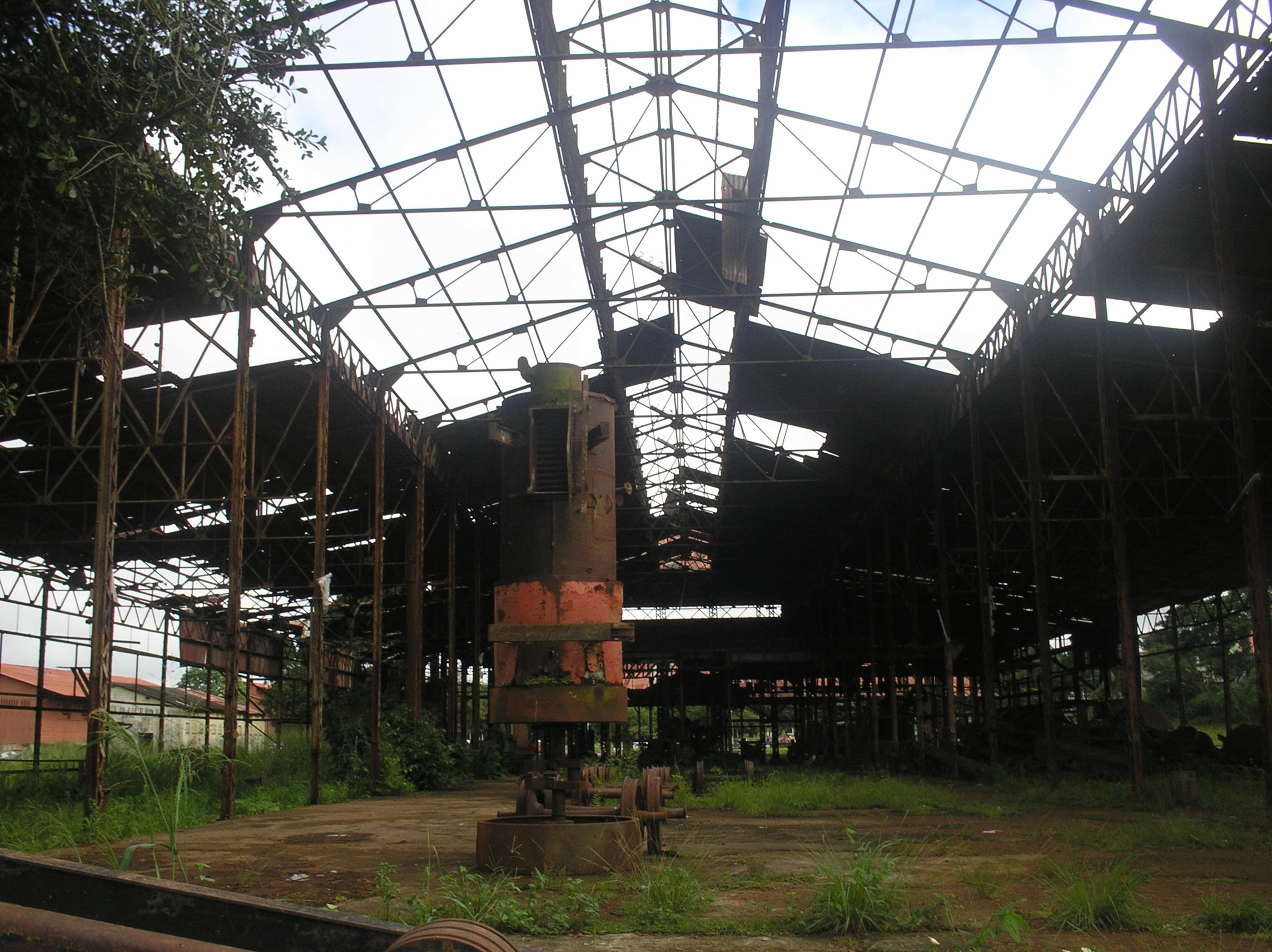 Another view, inside the hangar on MM Railway, Brazil